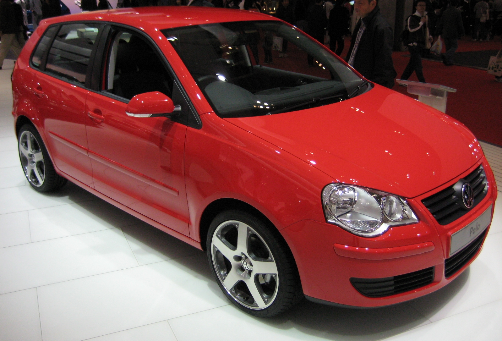 Volkswagen Polo IV in Tokyo Motor Show 2007